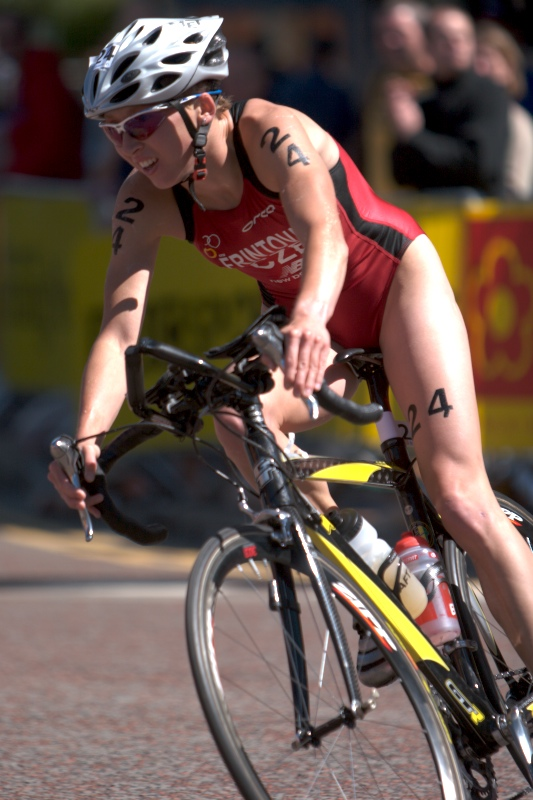 Czech Republic triathlete Vendula Frintova at the 2007 Salford Triathlon